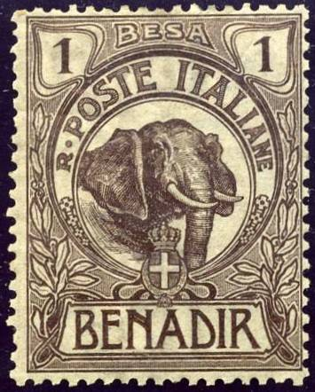 1 Besa stamp for Italian Somaliland, issued by the Benadir Company in 1903